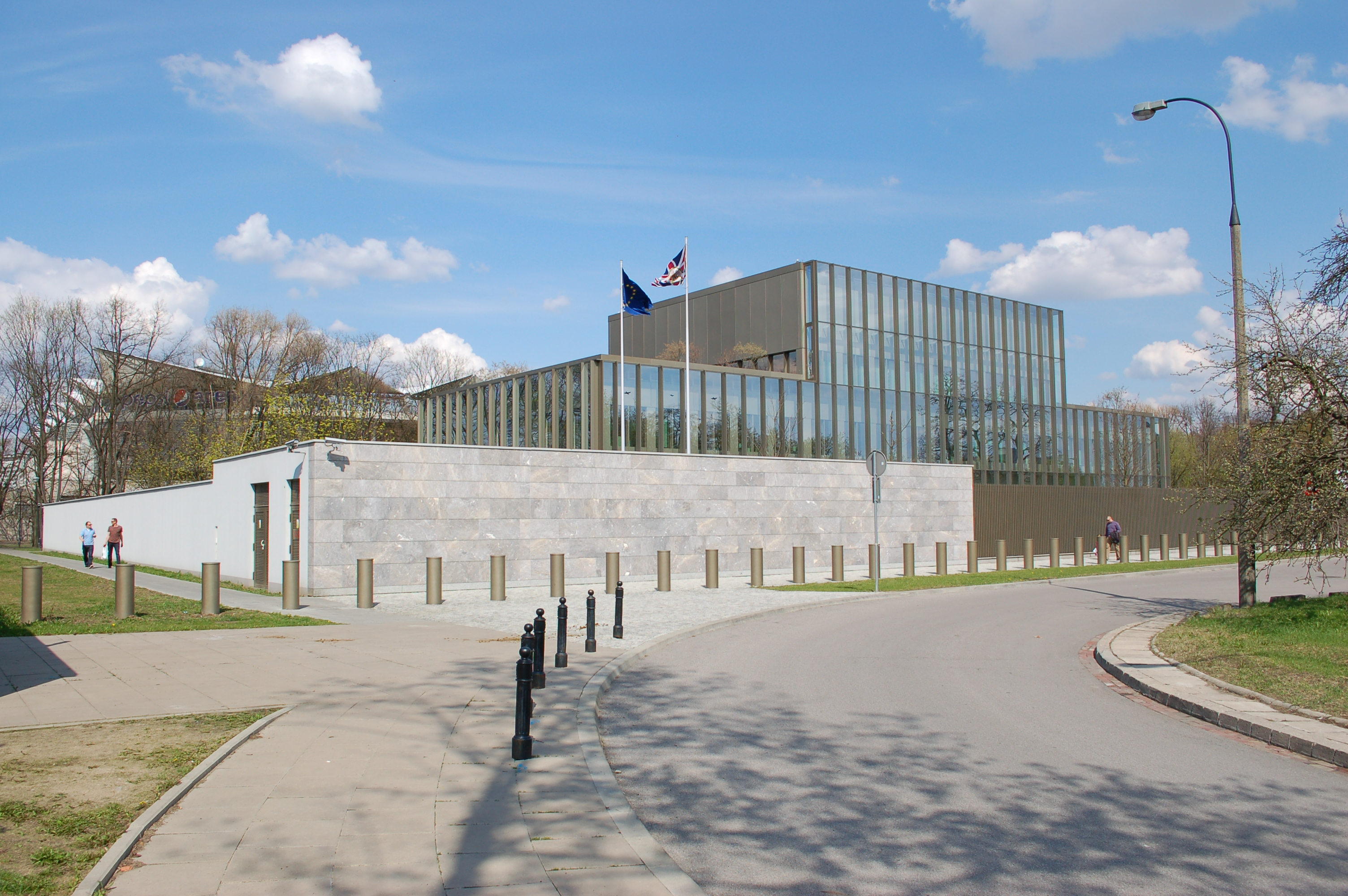 Kawalerii Street in Warsaw